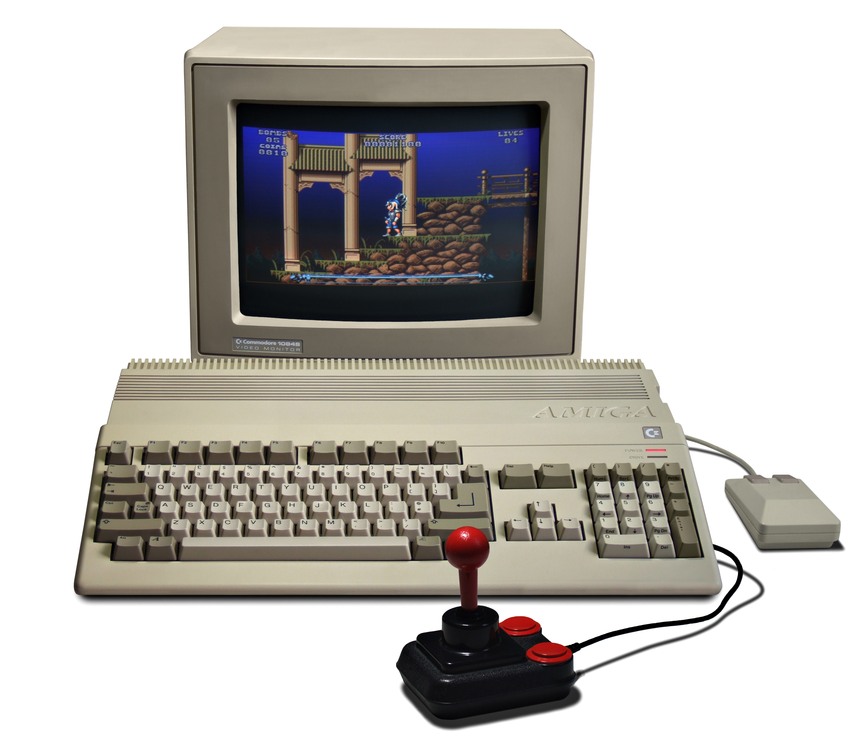 "Leander", Commodore Amiga 500, 16-bit computer (1987).